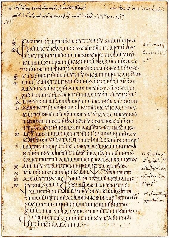 page 71